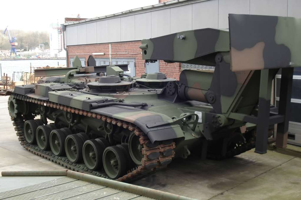 By leveraging the industrial base and maintaining a flexible working environment, LoCMO was able to execute the mission according to USAREUR\'s timeline, despite the challenges the organization faced during the repair process. In addition to compete repair, the equipment was also repainted.